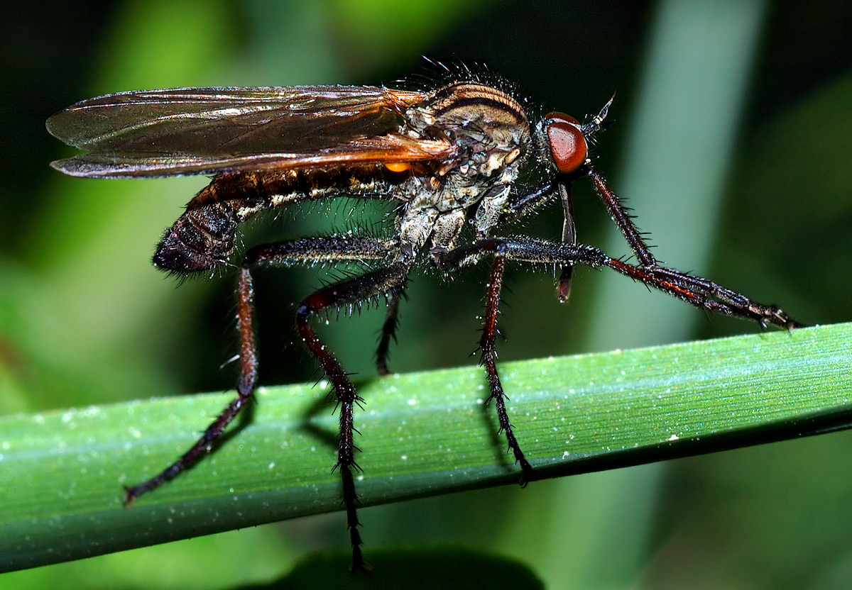 This image shows a 0.47 inch (12 mm) large dance fly Empis tesselata male.